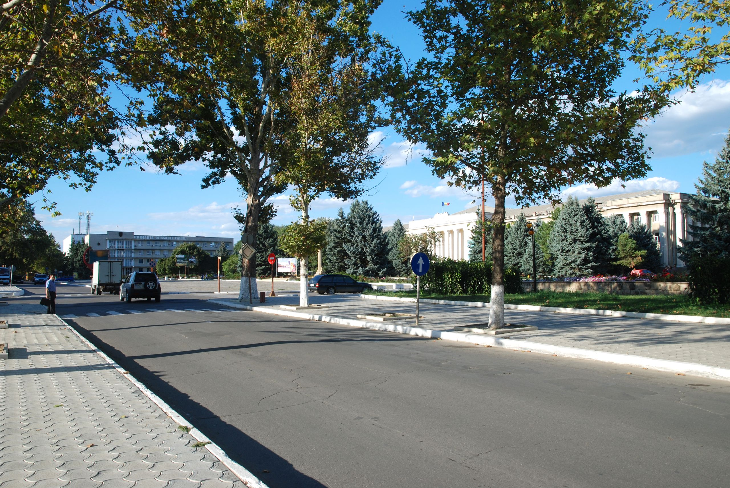 Cahul, Calea Republicii